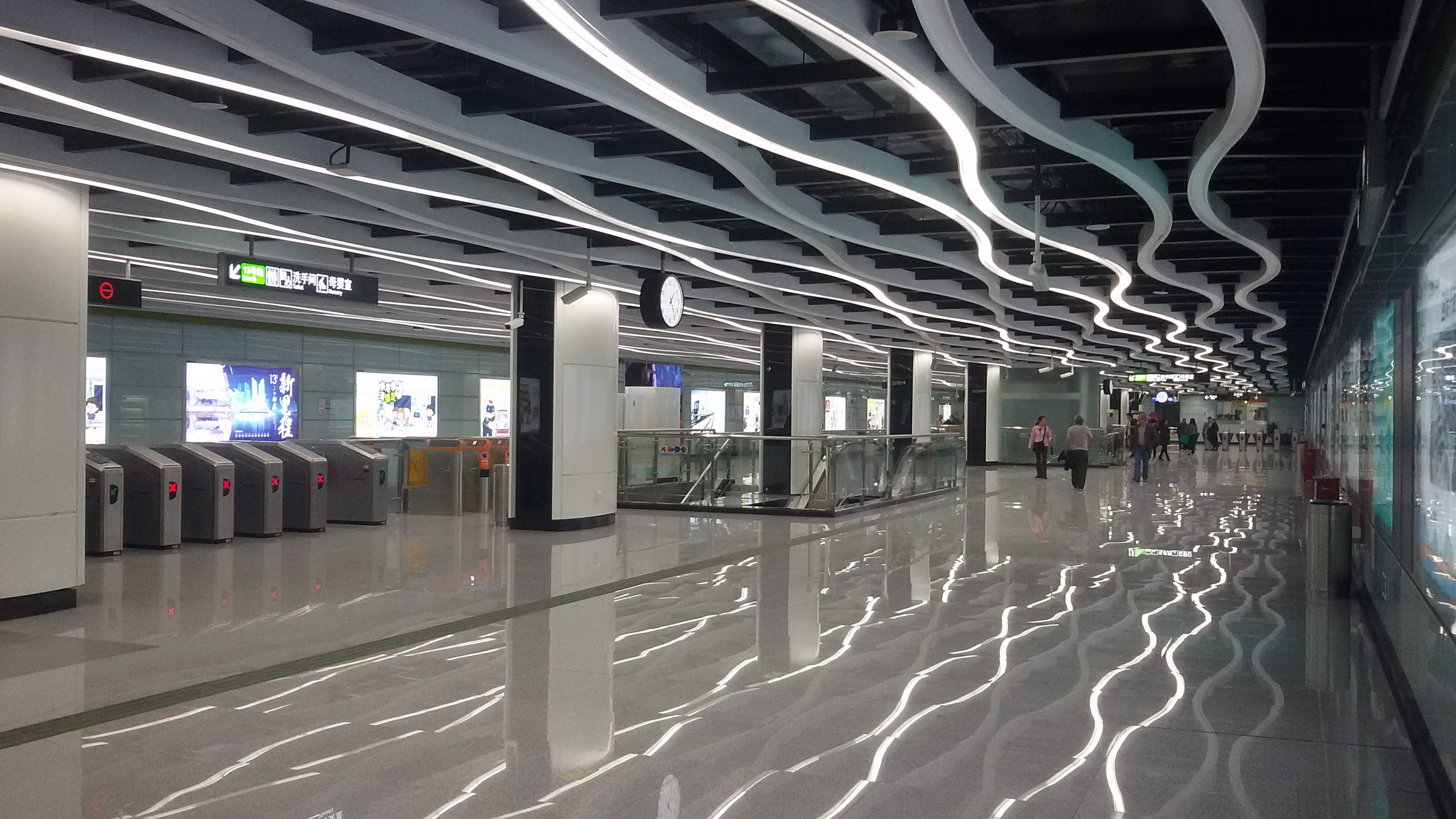 Station Concourse for Xiayuan Station in Guangzhou Metro.